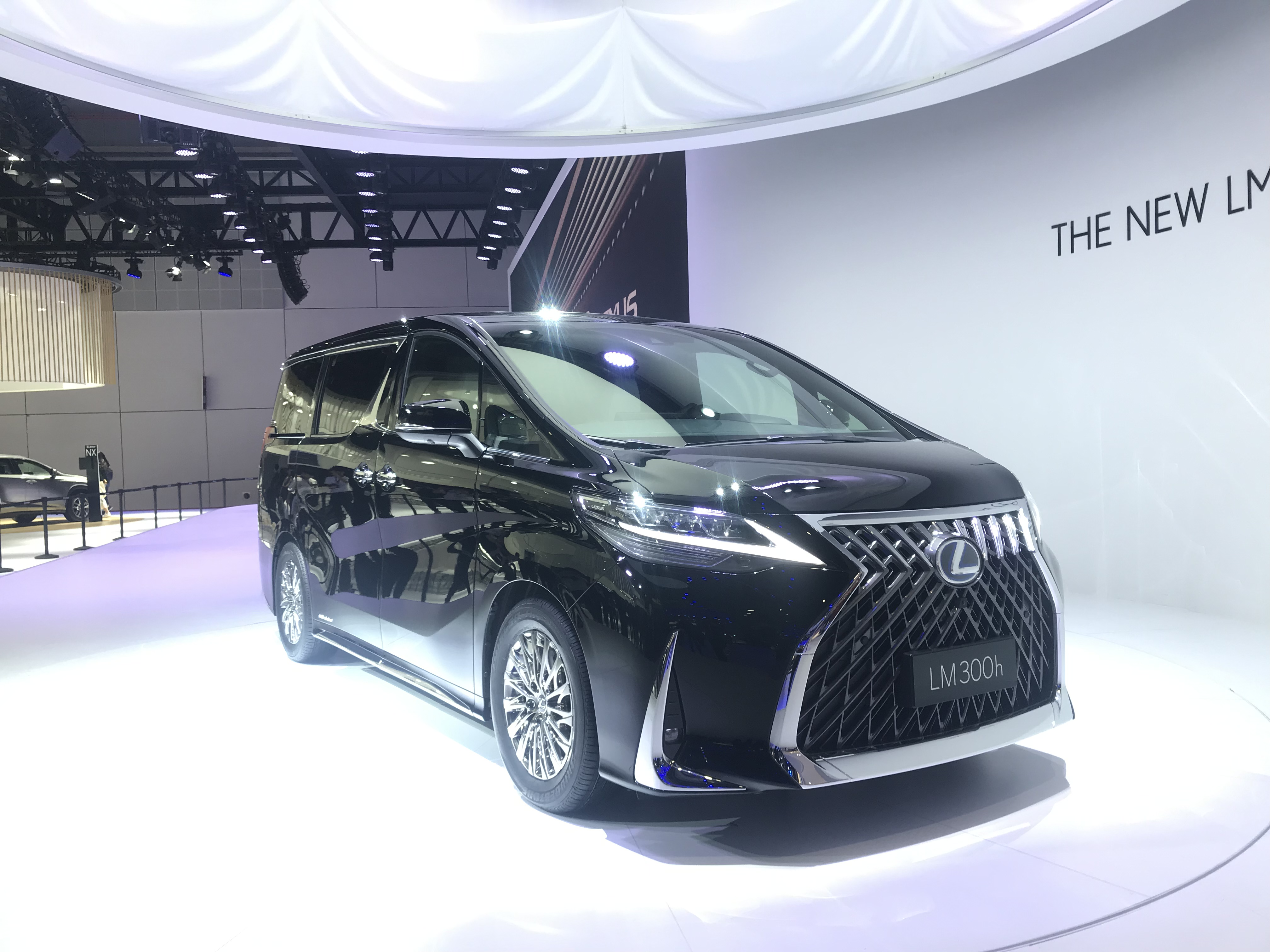 Lexus LM